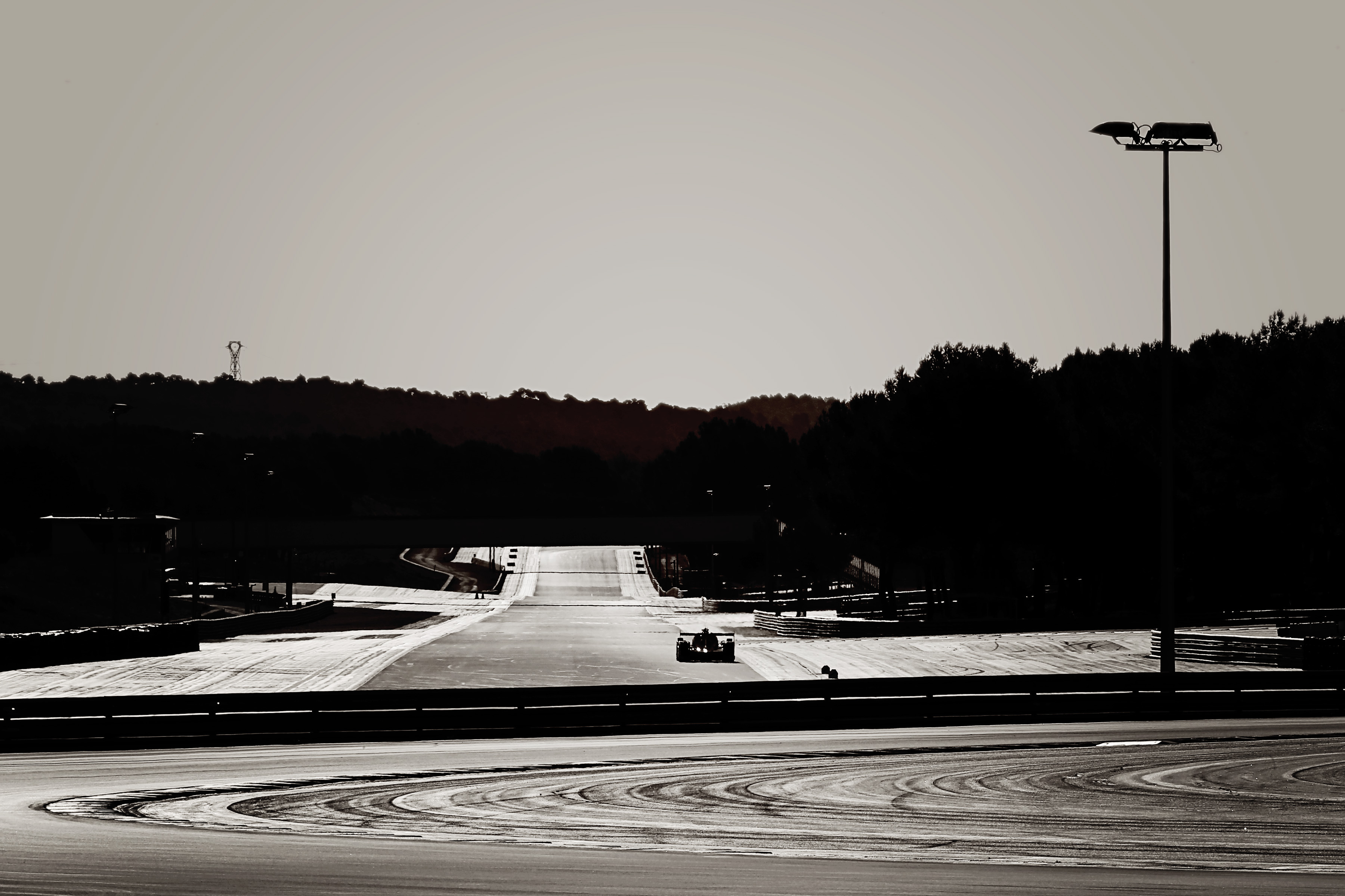 European Le Mans Series - 4 Hours of Le Castellet - Mistral Straight